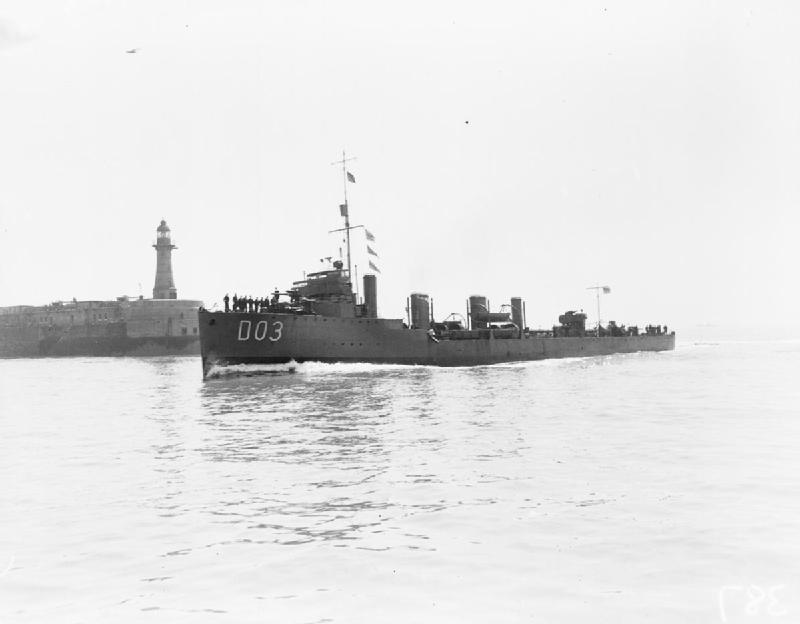 IWM Caption : "HMS CRUSADER 'TRIBAL' group destroyer. Served with the Dover Patrol."